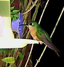 Hummingbird from Mata Atlantica with food provided -2